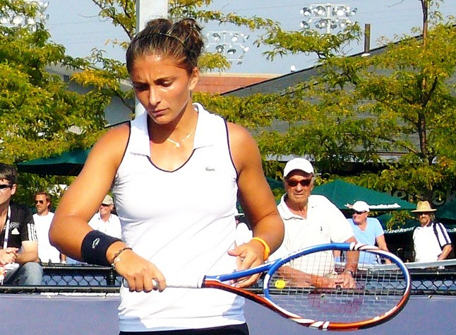 Sara Errani